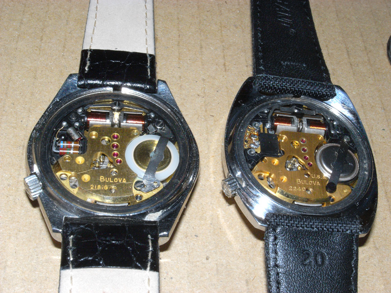 Accutron and Accuquartz movement